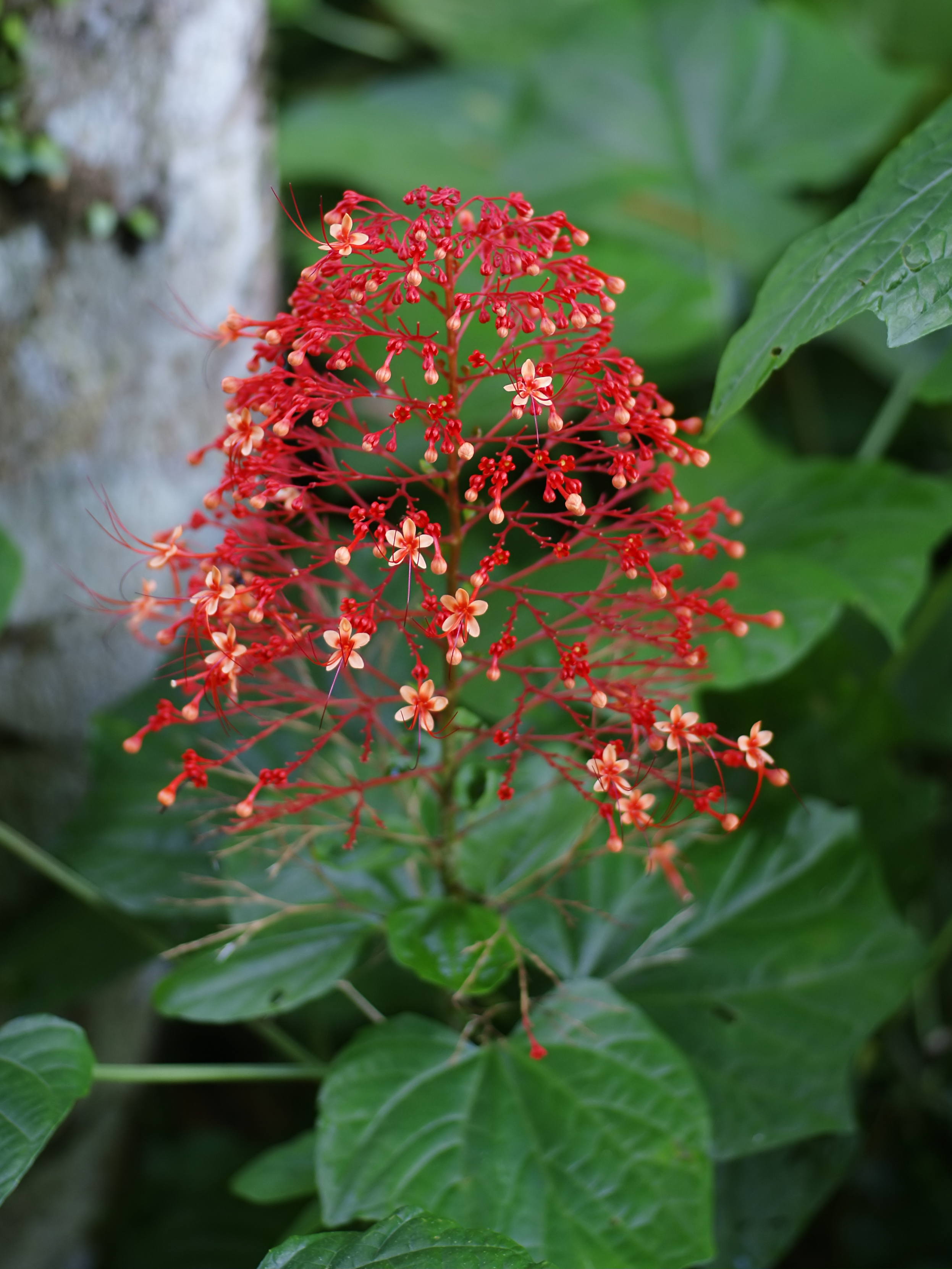 Pagoda flower near Puerto Viejo de Sarapiqui, Costa Rica